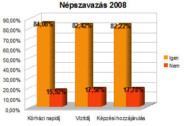 Results of the 2008 hungarian referendum